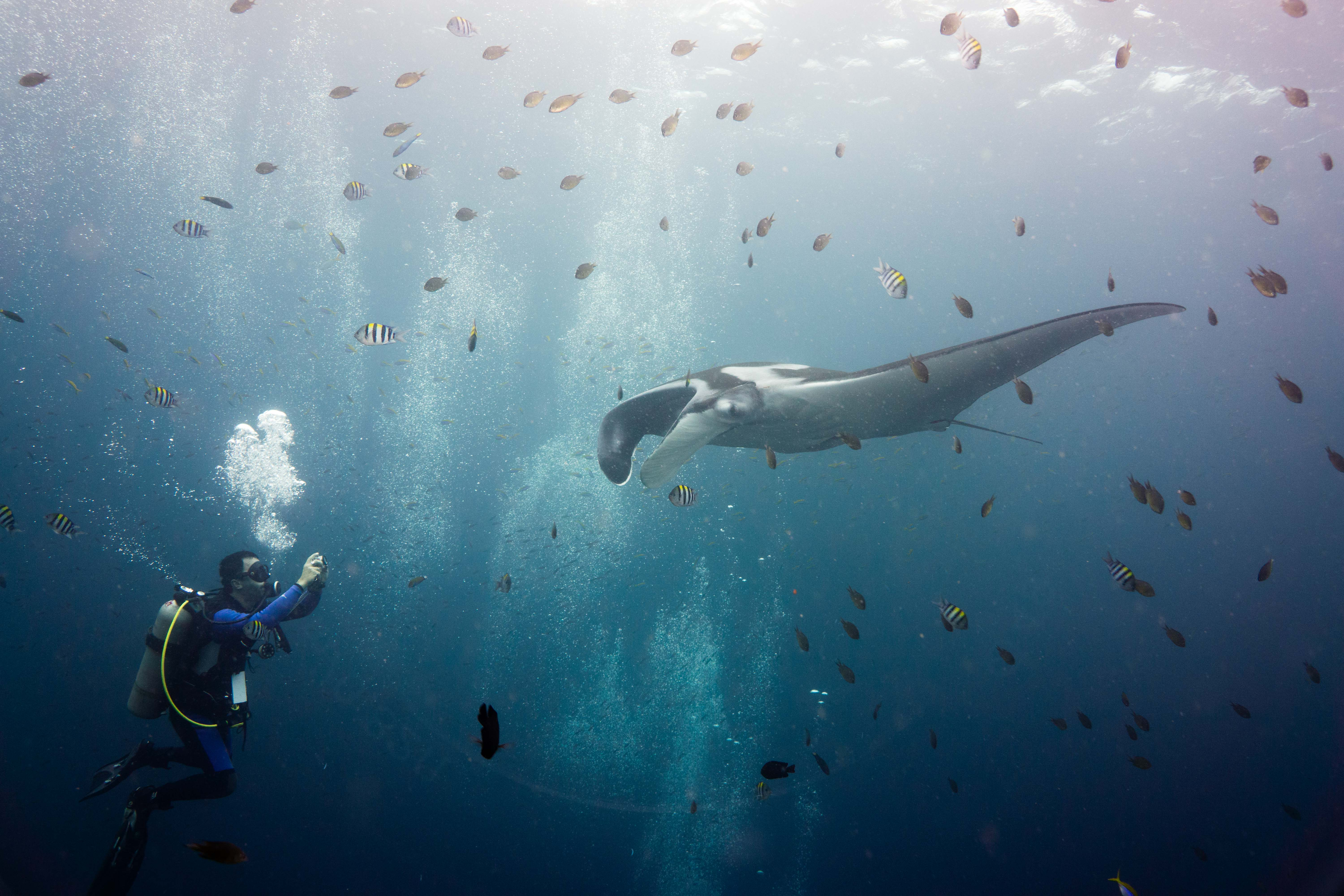 Giant oceanic manta ray